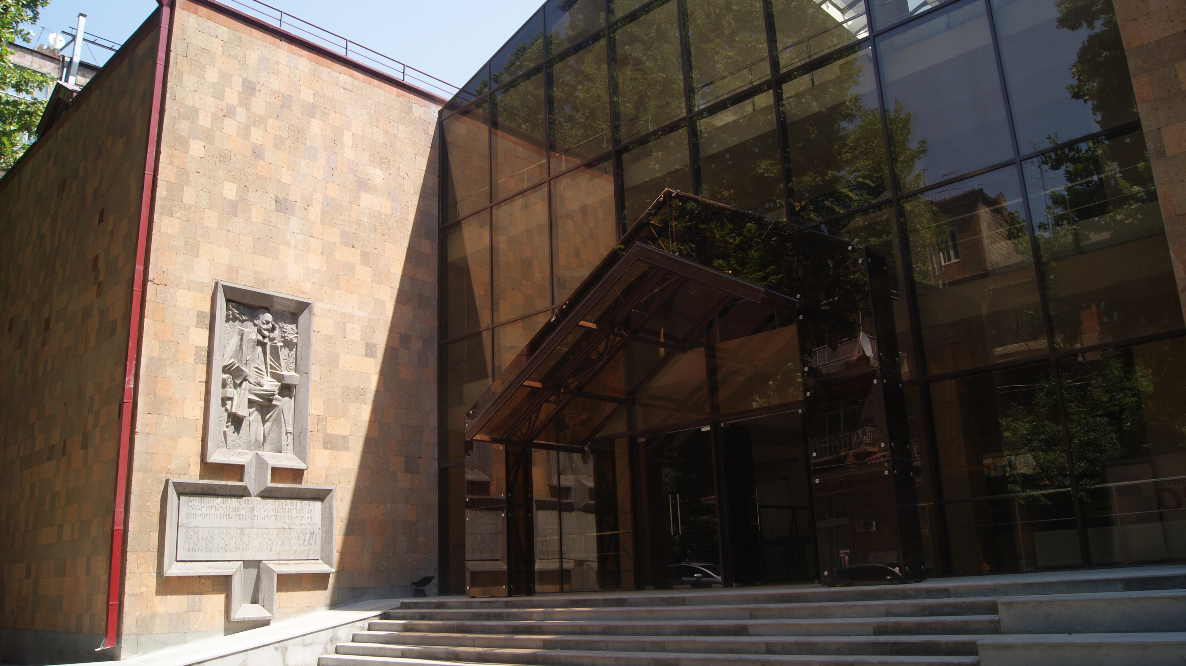 Chaykovski music school, Yerevan